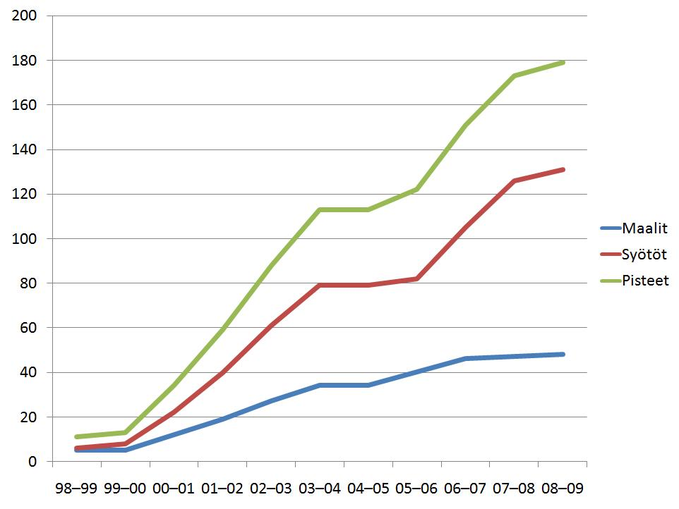 Eric Brewer stats on NHL (maalit=Goals, Syötöt=assists and Pisteet=points)